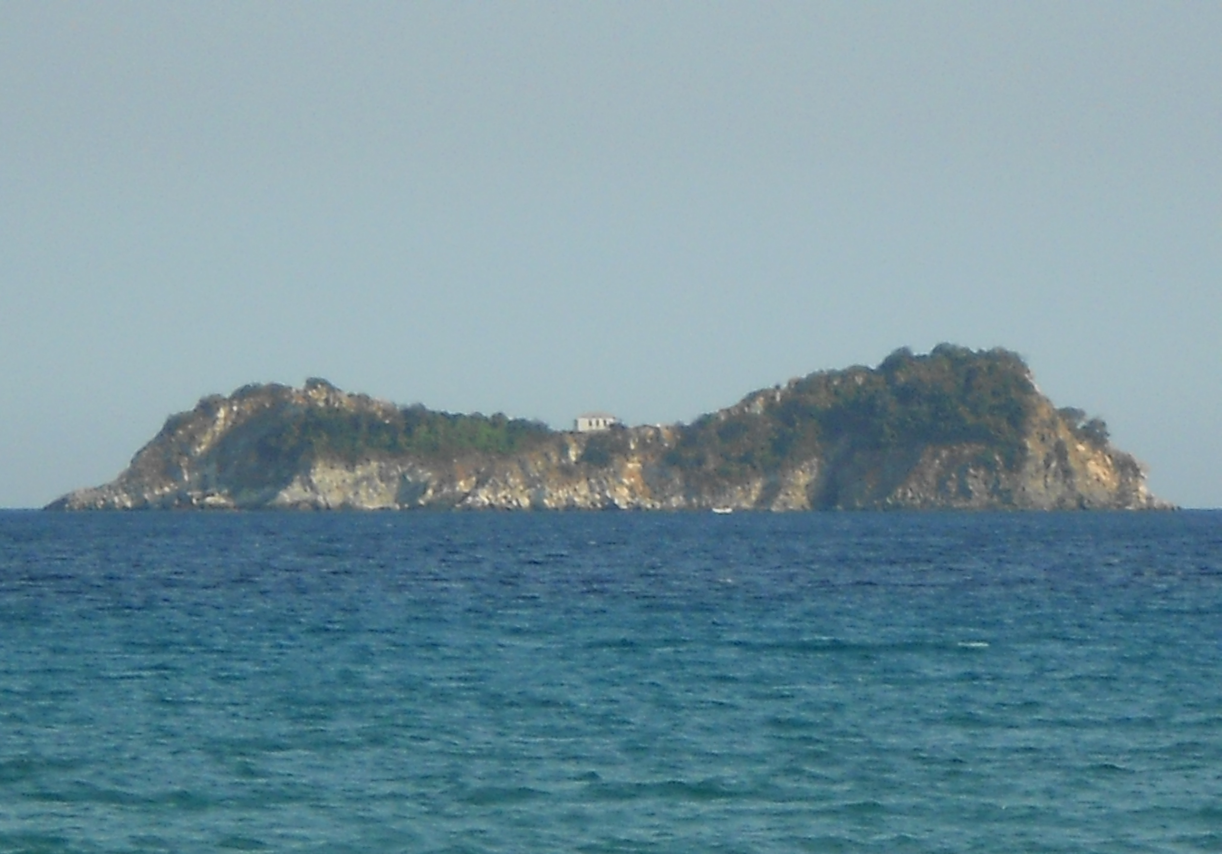 Gramvousa Island, Thassos